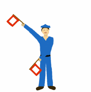 Letter I of the nautical semaphore flag signalling system Source: Martin Hawlisch (User:LosHawlos) My own drawing done in gimp First uploaded to de: in jun-2004